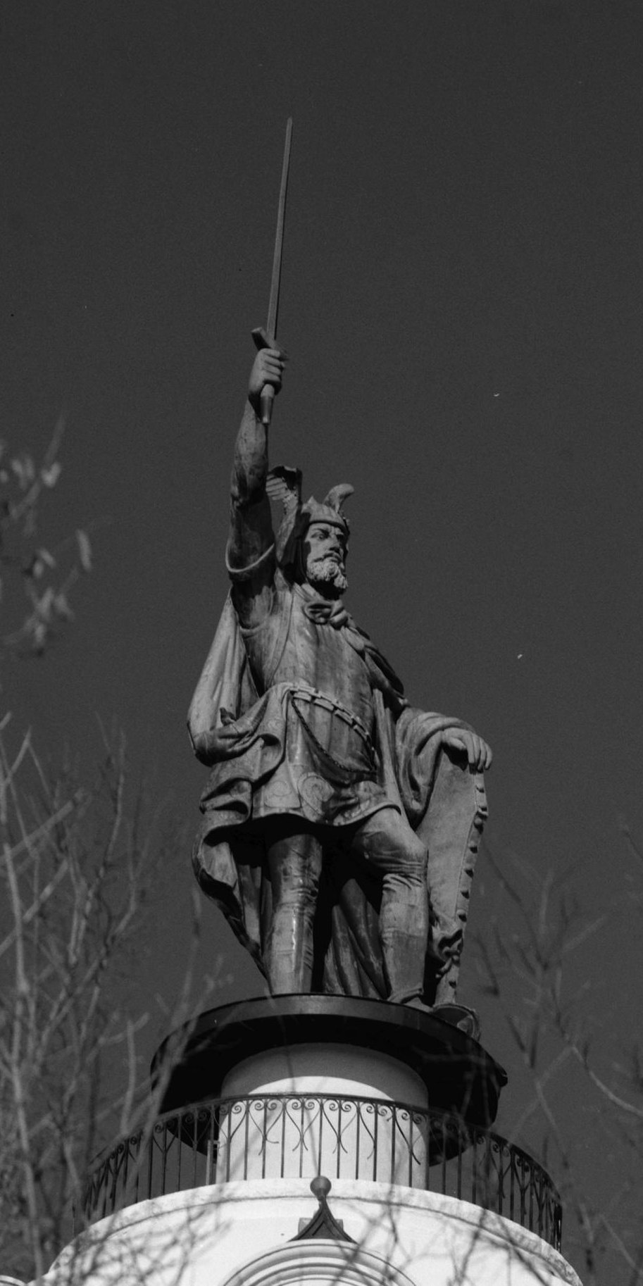 Detail of Hermann Monument statue in New Ulm, Minnesota. Cropped from "Detail of statuary on top of monument, three-quarter profile, looking Northwest HABS MINN,8-NEWUL,3-4"